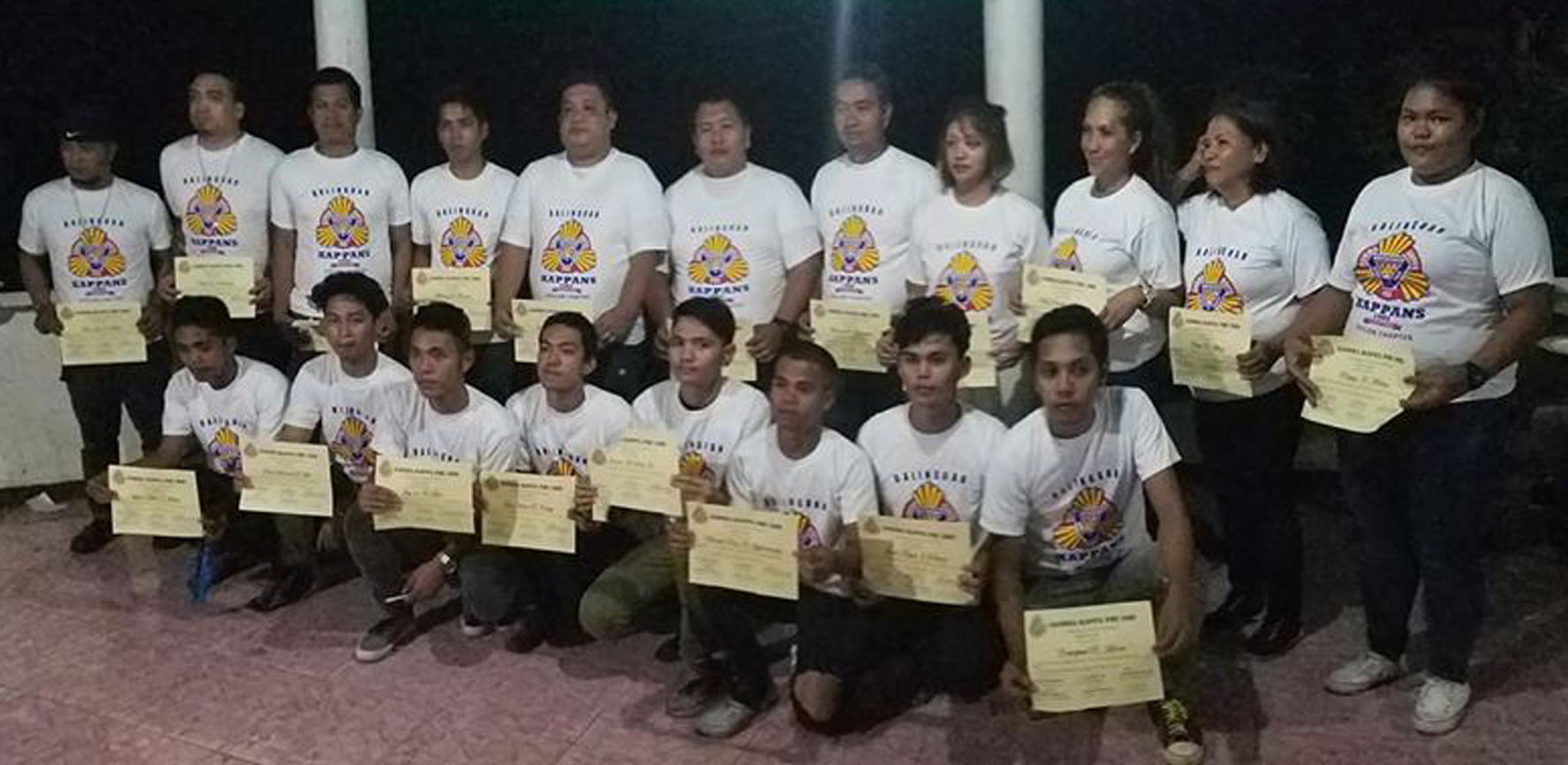 This photo was taken during the acceptance ceremony of new collegiate members and it belonged as a property image of Gamma Kappa Phi Balingoan-Epsilon Chapter in Cagayan de Oro City City. The photo was contributed by a member and allowed the organization to use or published for legal public information.